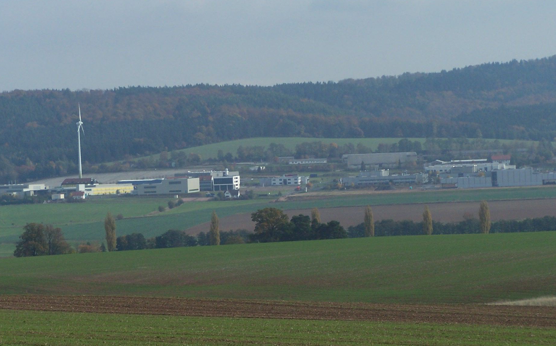 Industrial area at Meileshof.